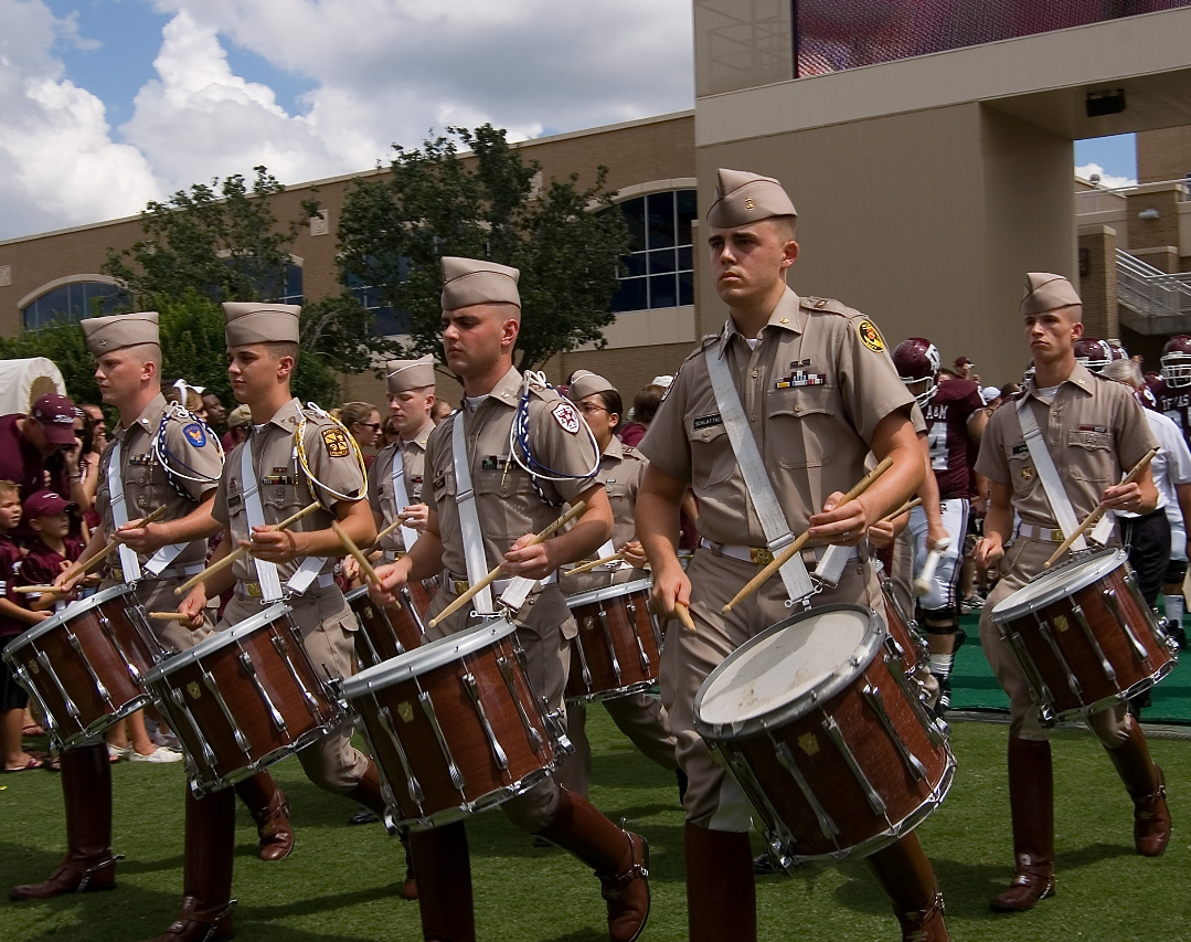 Fightin' Texas Aggie Band leads the players onto Kyle Field. Texas A&M vs. Fresno State - September 8th, 2007.